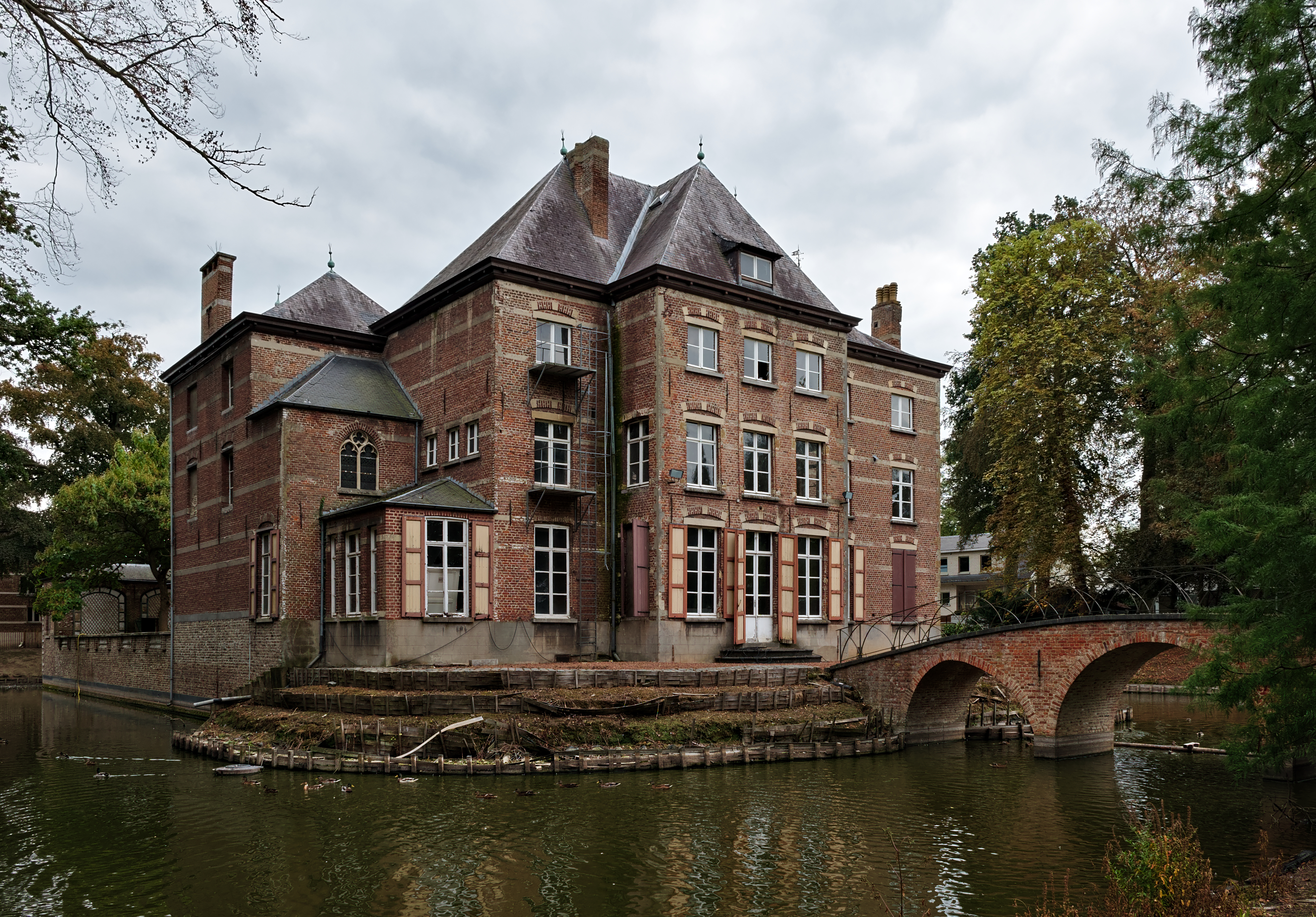 Terlinden castle in Aalst, Belgium This photo of immovable heritage has been taken in the Flemish Region